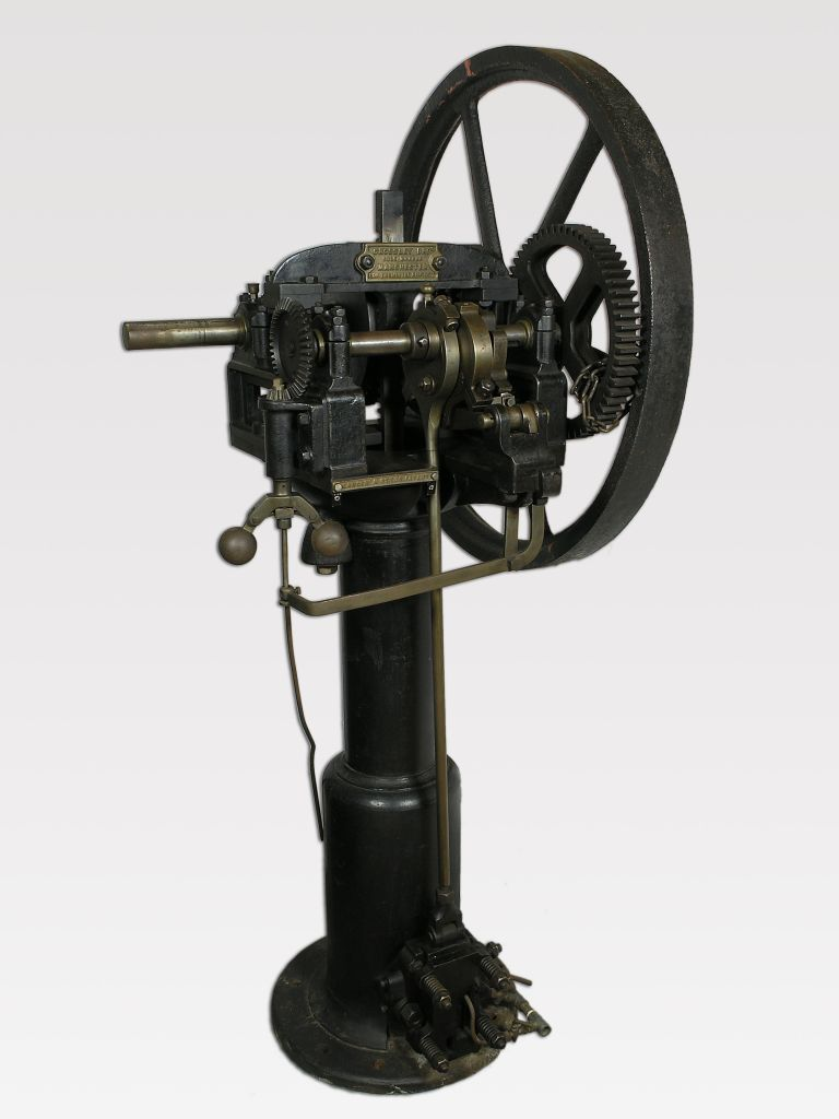 Vertical Atmospheric Gas Engine. Langen/Otto Patent. Made by Crossley of Manchester, England. Editing Undertaken: Unsharp Mask, background removed